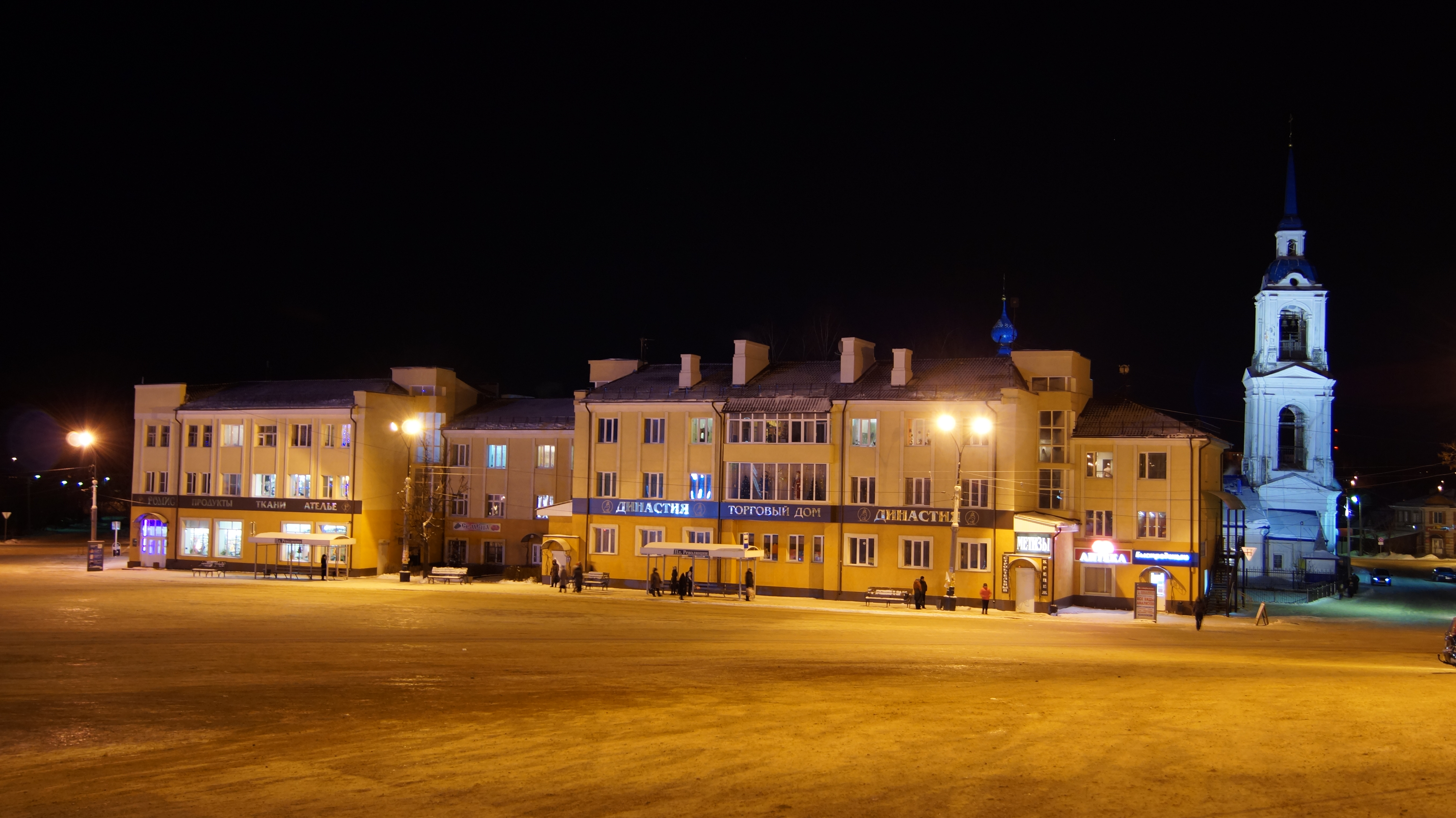 Городская площадь вечером